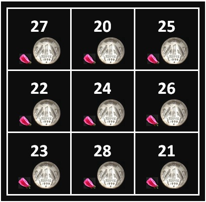 An image (not photographic) of a Kuberakolam